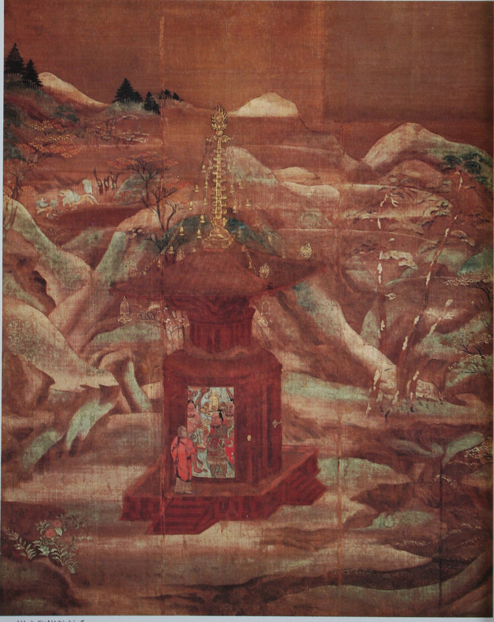 Ryūmyō, one of the Divinely inspired Reception of the Two Great Sutras, kenpon choshoku ryōbutai kyōkantokuzu). One of the Two hanging scrolls, 177.8 cm x 141.8 cm. Color on silk. Located in the Fujita Art Museum, Osaka. The scroll has been designated as National Treasure of Japan in the category paintings.